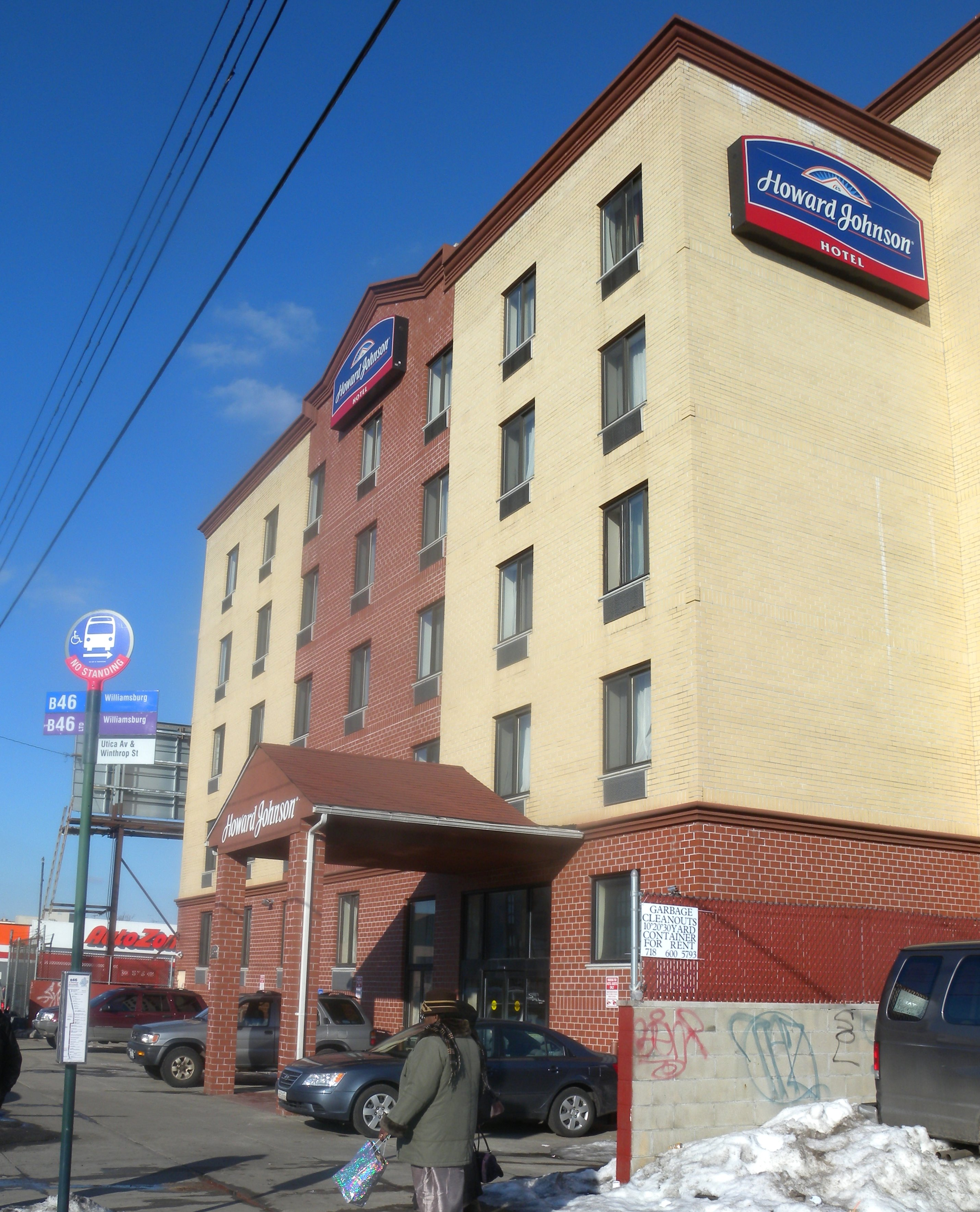 Looking north along Utica Avenue at Howard Johnson Hotel on a sunny afternoon.